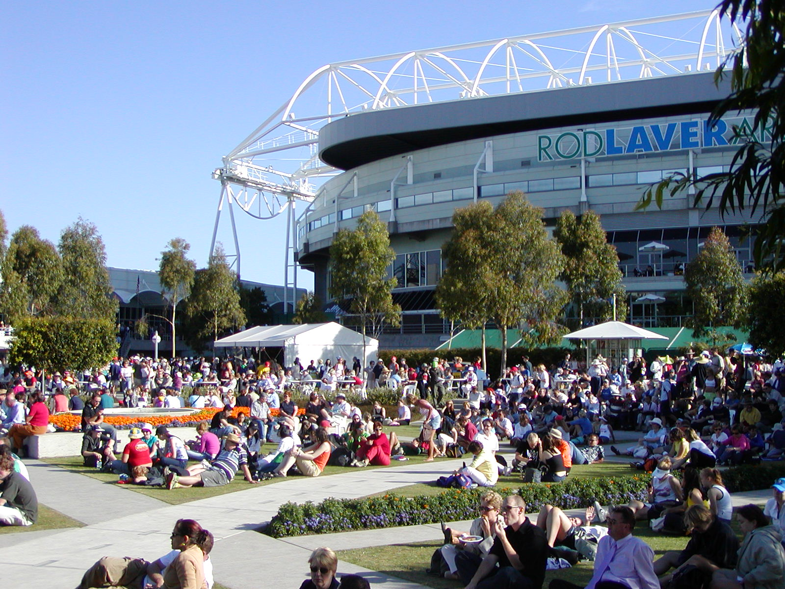 Rod Laver Arena with Park during the Australian Open 2002